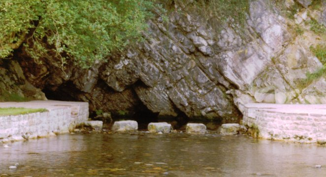 karst spring, "La Fuentona de Ruente", Cantabria